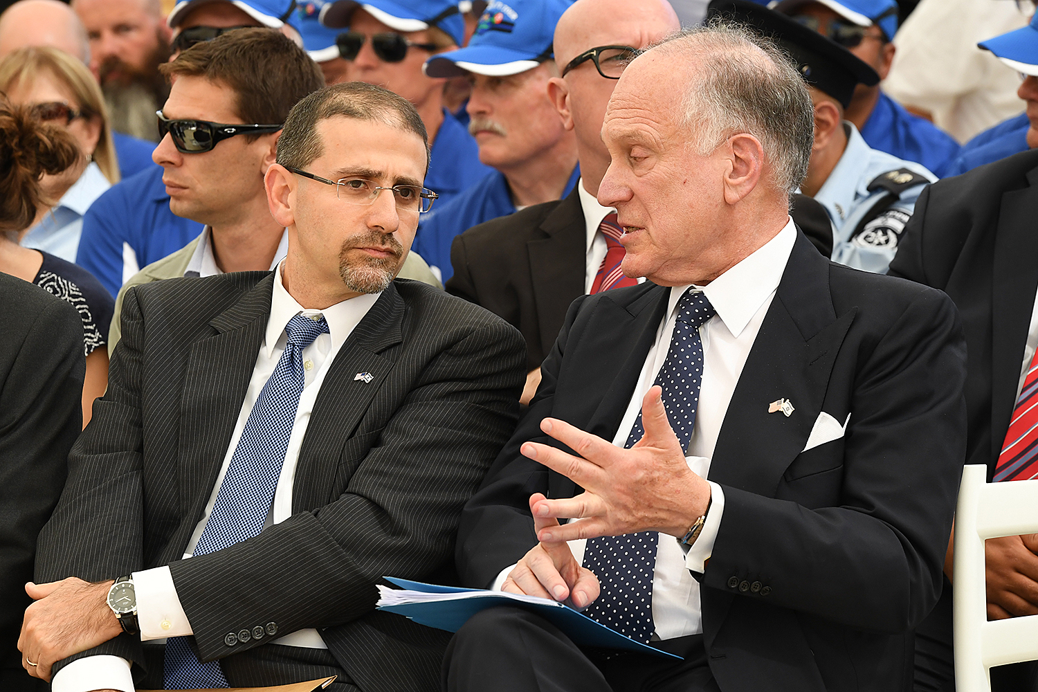 American Embassy Tel Aviv joined Keren Kayemed L'Yisrael and Jewish National Fund-USA in observing the 15th anniversary of the 9/11 terror attacks in the U.S. Over 500 participants gathered for the ceremony at the 9/11 Living Memorial in the Emek Arazim Valley near Jerusalem. Israeli government officials, over 30 foreign diplomats, members of bereaved families, the U.S. Police Unity Tour delegation, Israel Firefighters and Rescue, Israel National Police and representatives of first-responder organizations all attended. Addressing his remarks particularly to the 150-member Young Judea group who also attended, U.S. Ambassador Daniel Shapiro said, "This year, our remembrances mark the transition of 9/11 from living memory to history. A young person on the cusp of adulthood today has no personal memory of 9/11. The obligation falls on us to teach them, and on them to learn -- both about the great sadness, pain, and loss, but also the inspiring stories of heroism, courage and generosity around those events." Jerusalem